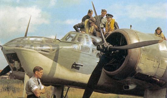 Rare colour photo from World War II showing a Bristol Blenheim being serviced